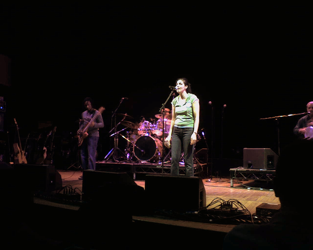 Souad Massi in concert